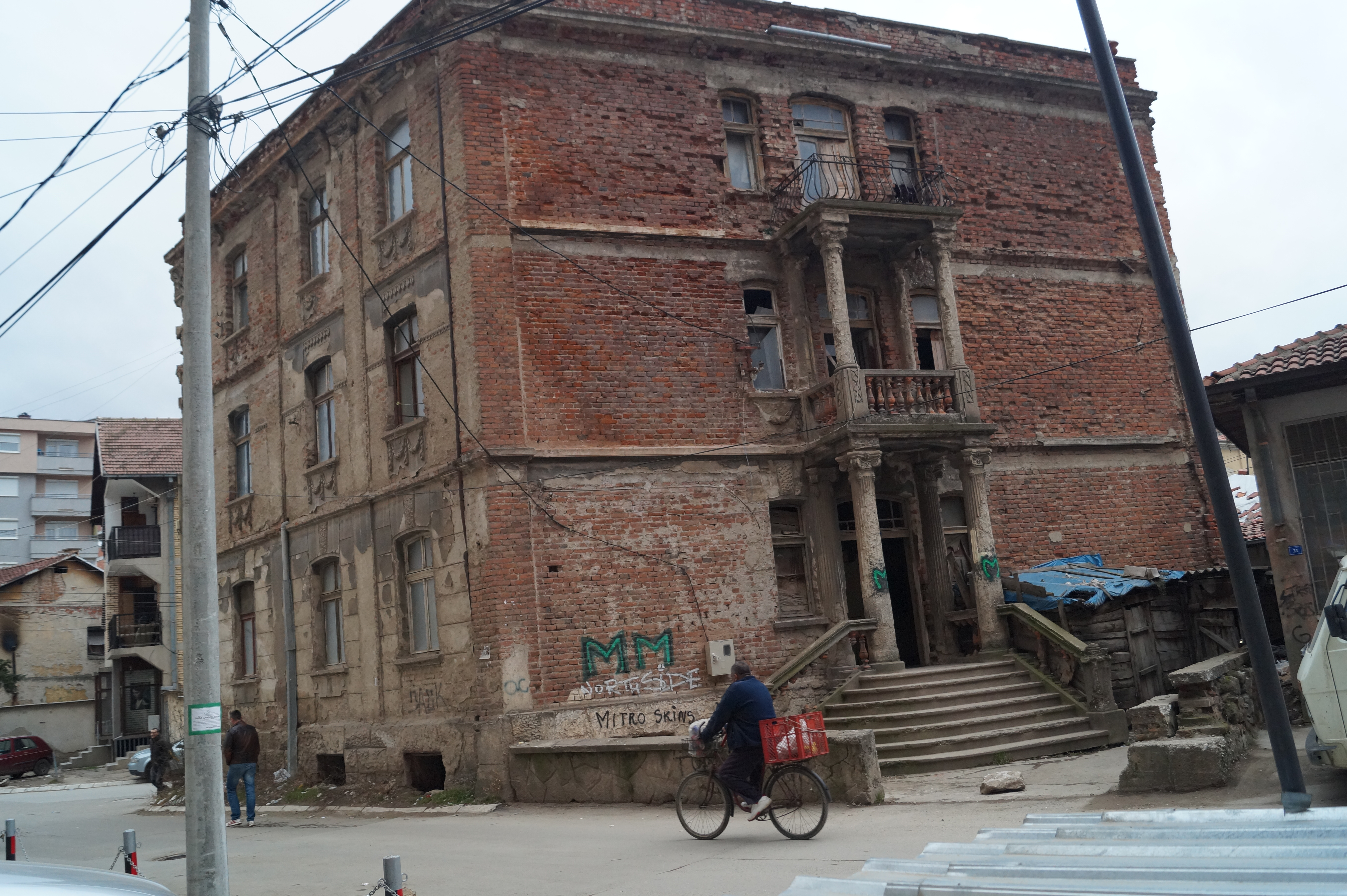 This is the house of the Former First Minister of Interior Affairs of Albania, Mr.Xhafer Deva. The house is older than a century, and will soon be replaced with a museum.